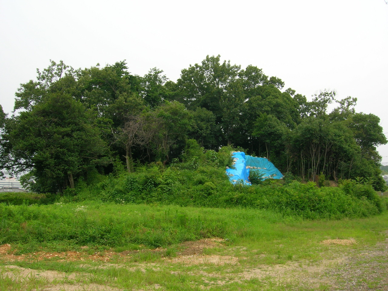 Shidami Otsuka Kofin. (Shidami Otsuka old tomb.) Loc: Moriyama word, Nagoya city, Aichi Prefecture, Japan.